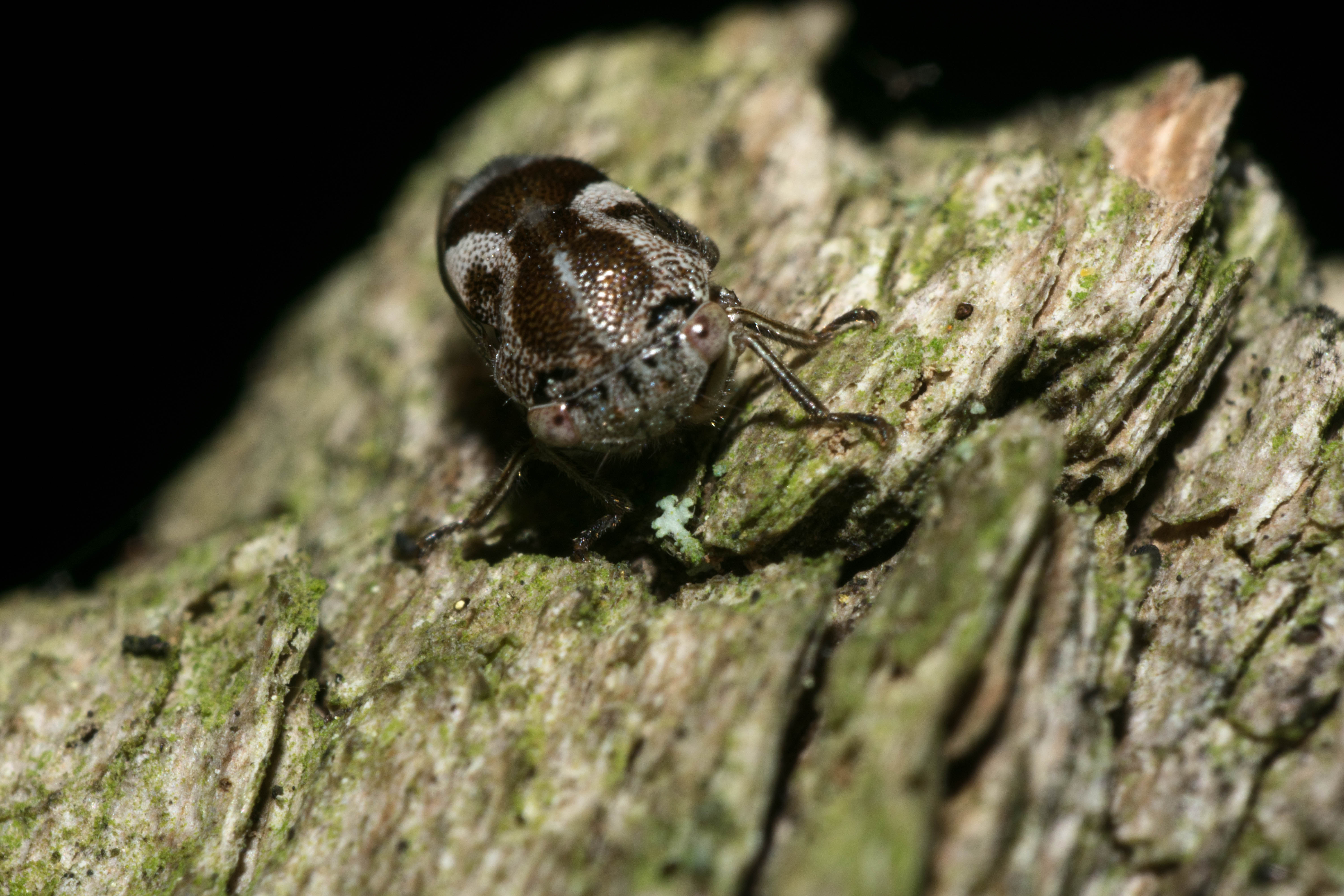 Ophiderma definita on a piece of bark [Ohio, USA]